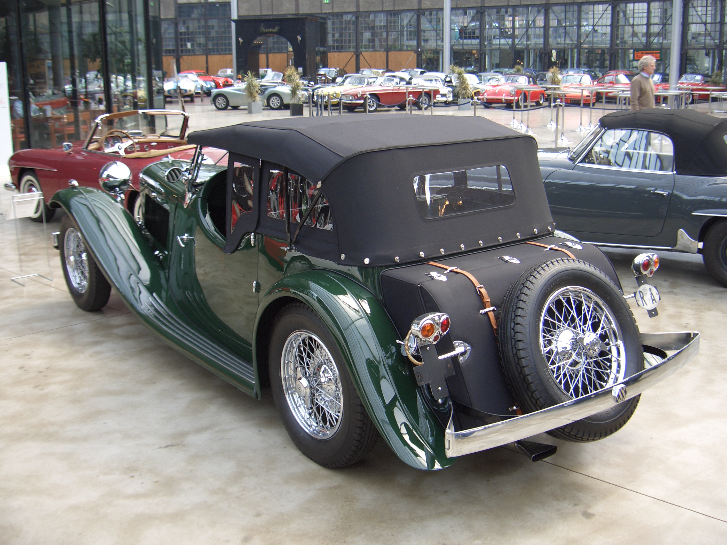 Standard Swallow SS-1 Tourer, 1932-1936, seen at MEILENWERK in Duesseldorf, Germany SS1 tourer manufactured by Swallow Sidecar Company from early 1933 note aftermarket chromed wire wheels and chromed brake drums